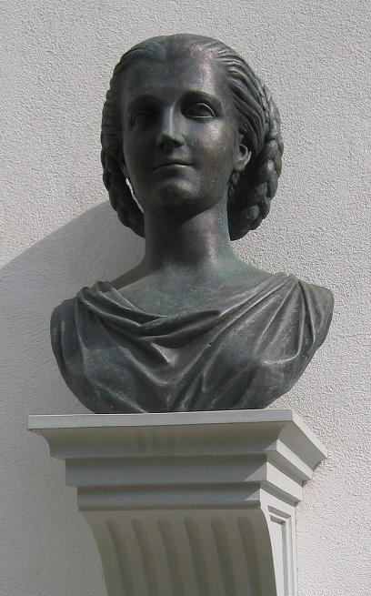 Josipina Urbančič Turnograjska, slovenian poet, writer and composer (statue at Turn castle, Preddvor, Slovenia) - her surname derives from this castle: Turno+grajska (grad=castle) sculptor: Fran Ksaver Zajec (1821-1888) photo:Ziga 19:25, 29 May 2006 (UTC)